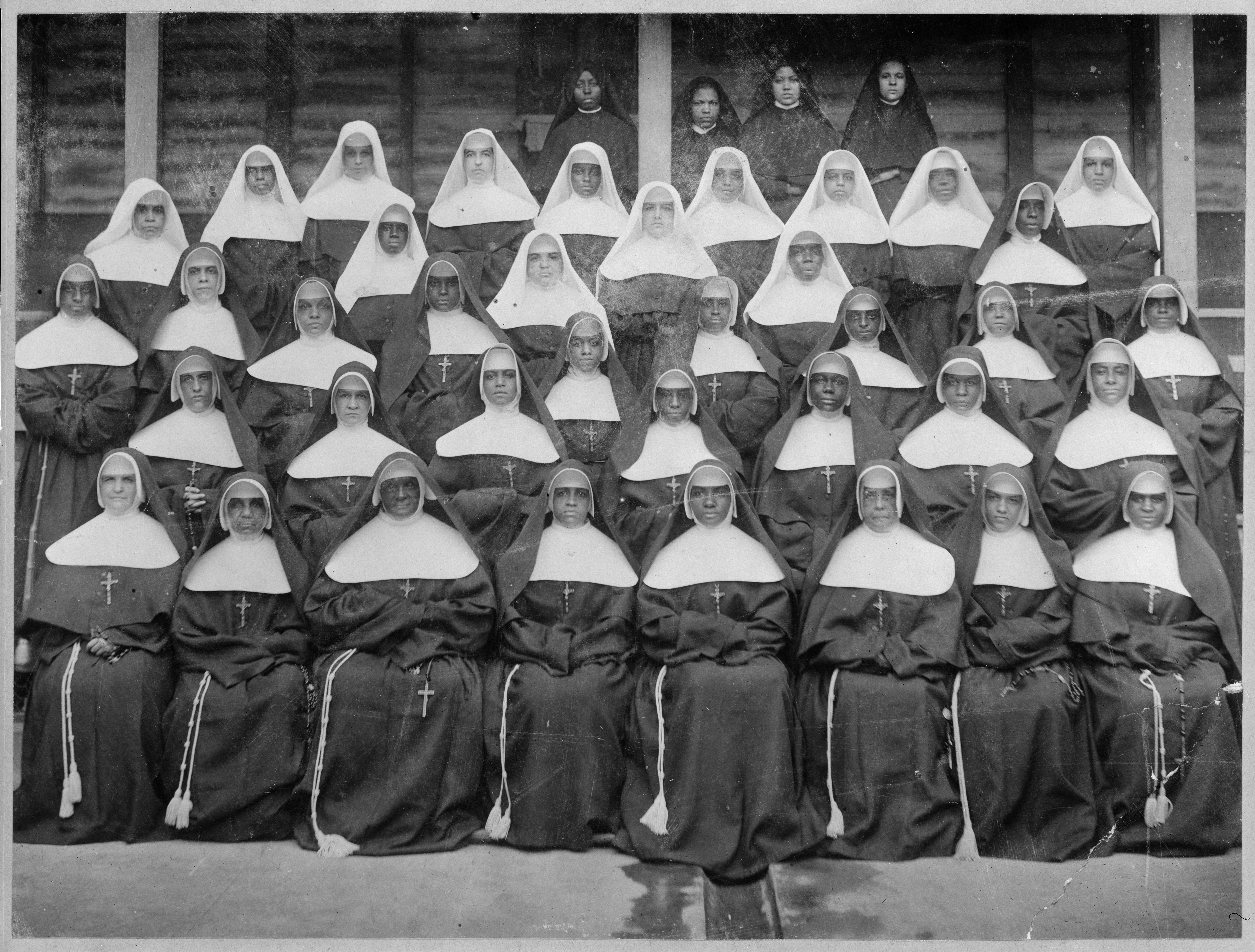 Title: Sisters of the Holy Family, New Orleans, La Physical description: 1 photographic print. Notes: Reportedly displayed as part of the American Negro exhibit at the Paris Exposition of 1900.; Title from caption card.; Images collected by W.E.B. Du Bois and Thomas J. Calloway for the "American Negro Exhibit" at the Paris Exposition of 1900 (Exposition universelle internationale de 1900).